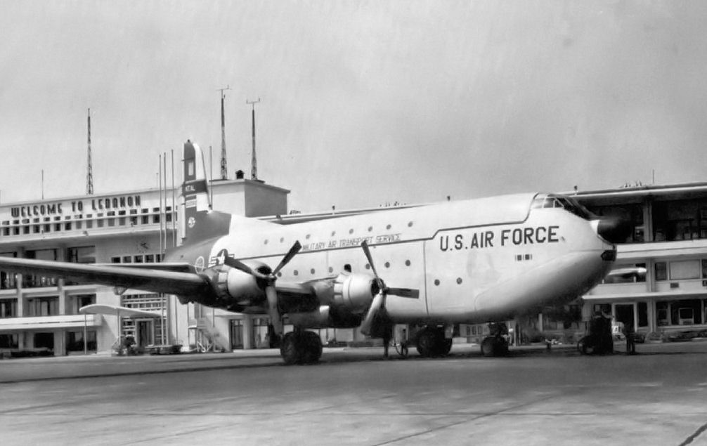 USAF C-124 Globemaster II aircraft at Beirut Airport, Lebanon, 1958